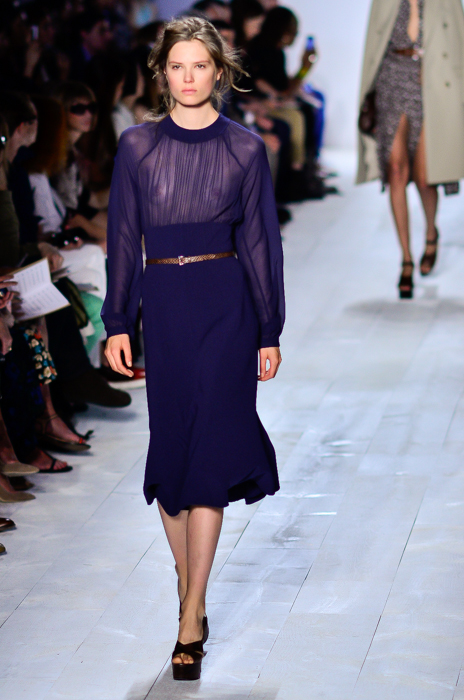 Caroline Brasch Nielsen walks the runway at the Michael Kors Spring/Summer 2014 show at New York Fashion Week, September 2013.